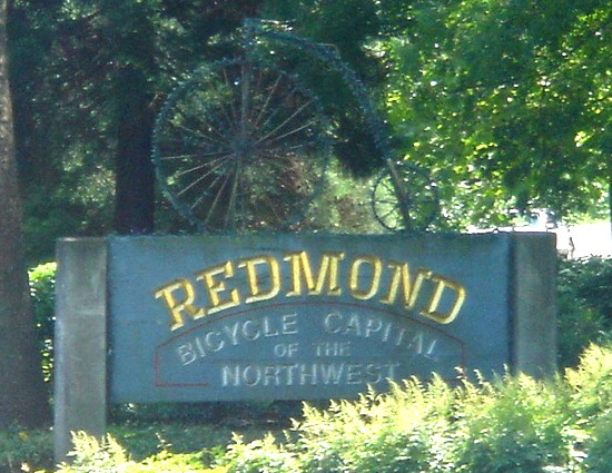 Sign in Redmond, Washington, reading "Redmond, Bicycle Capital of the Northwest".